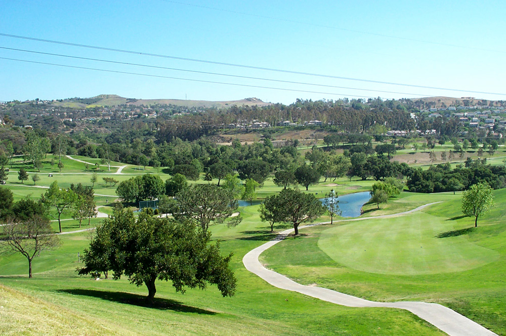 View of Anaheim Hills, CA from the Anaheim Hills Golf Club near the #12 green.